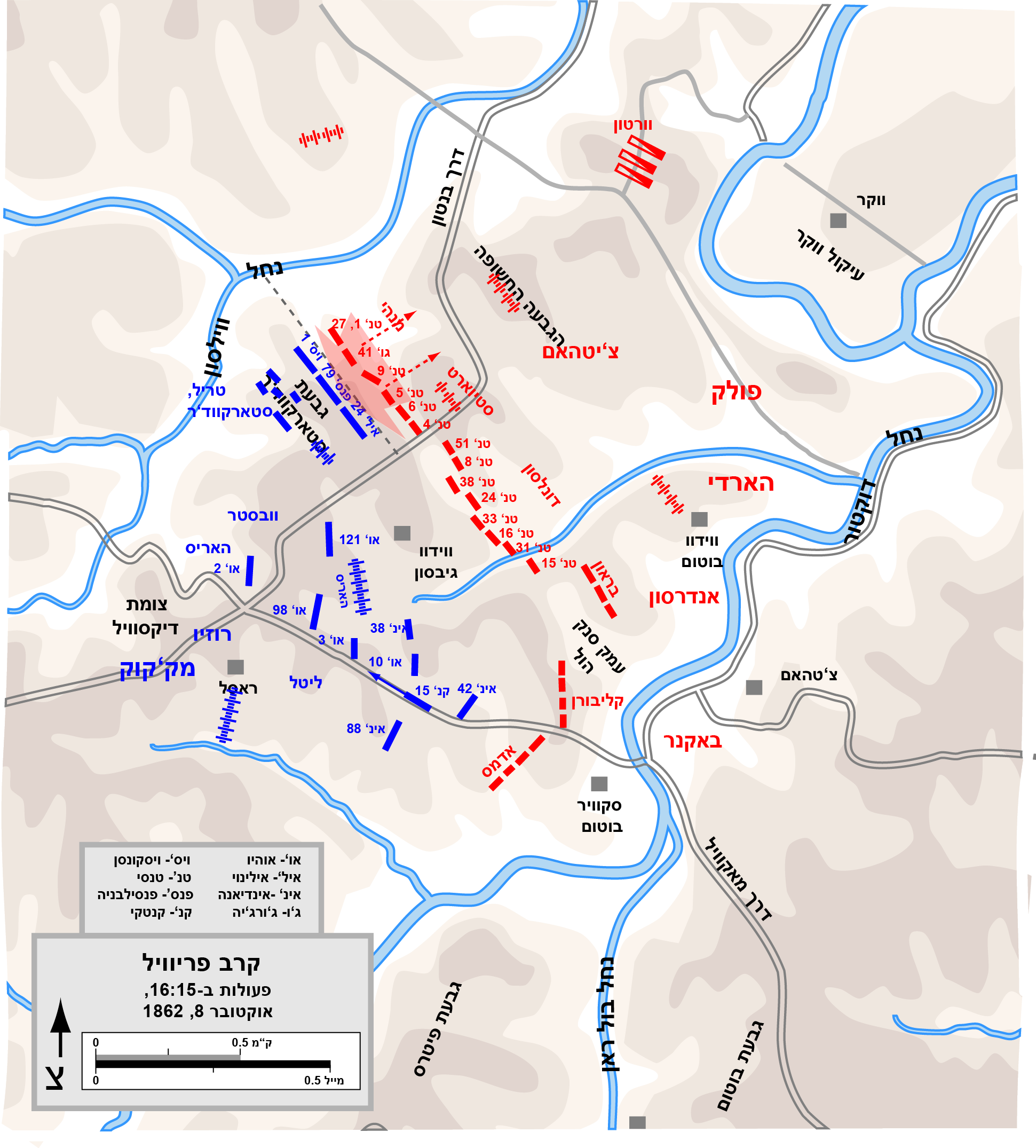 Map of the Battle of Perryville of the American Civil War. Drawn by Hal Jespersen in Adobe Illustrator CS5. Graphic source file is available at